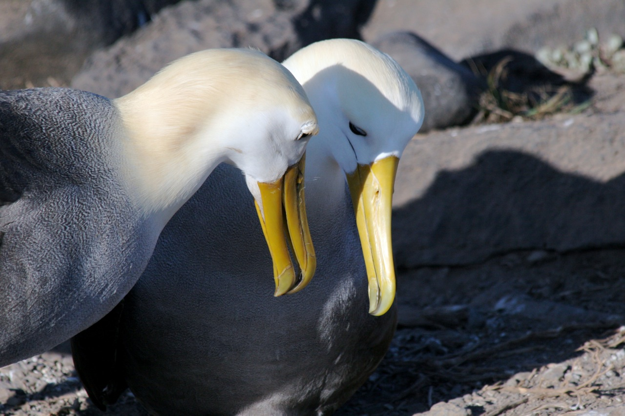 Waved Albatross (Phoebastria irrorata) - also known as Galapagos Albatross. A pair.